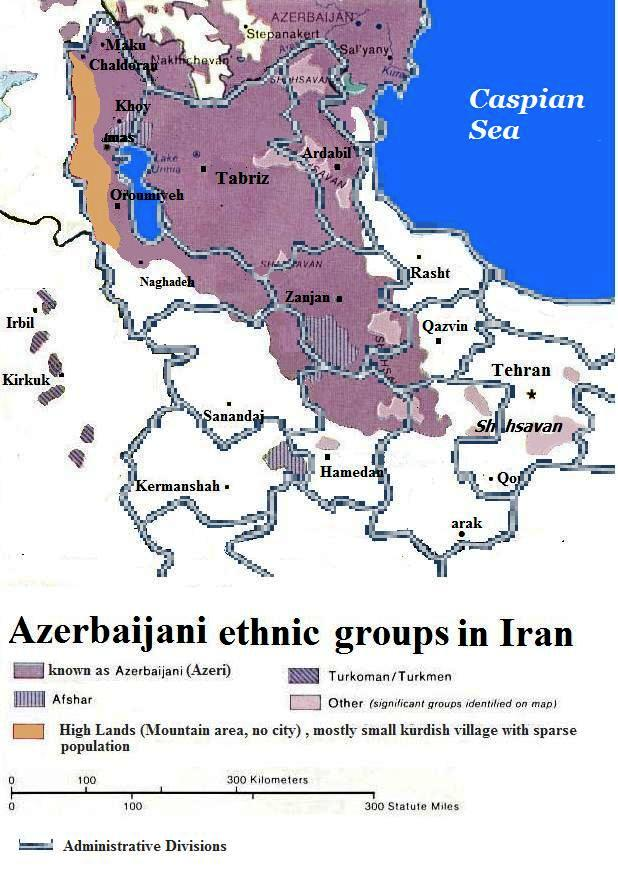 self-made using Map resources and based on Texas University map Iran_people and English Wikipedia articles about azeris in Iran